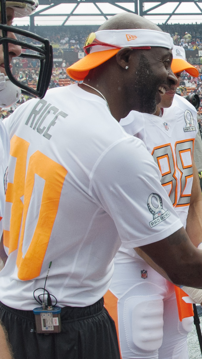 Jerry Rice in 2014 Pro Bowl.